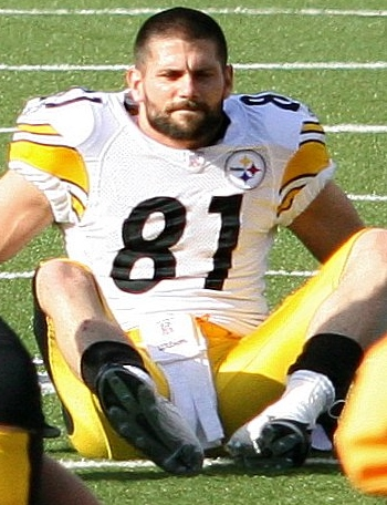 NFL referee Paul Weidner and Pittsburgh Steelers coach Bill Cowher standing on the M&T Bank Stadium field while Steelers player Sean Morey (#81) and others warm up